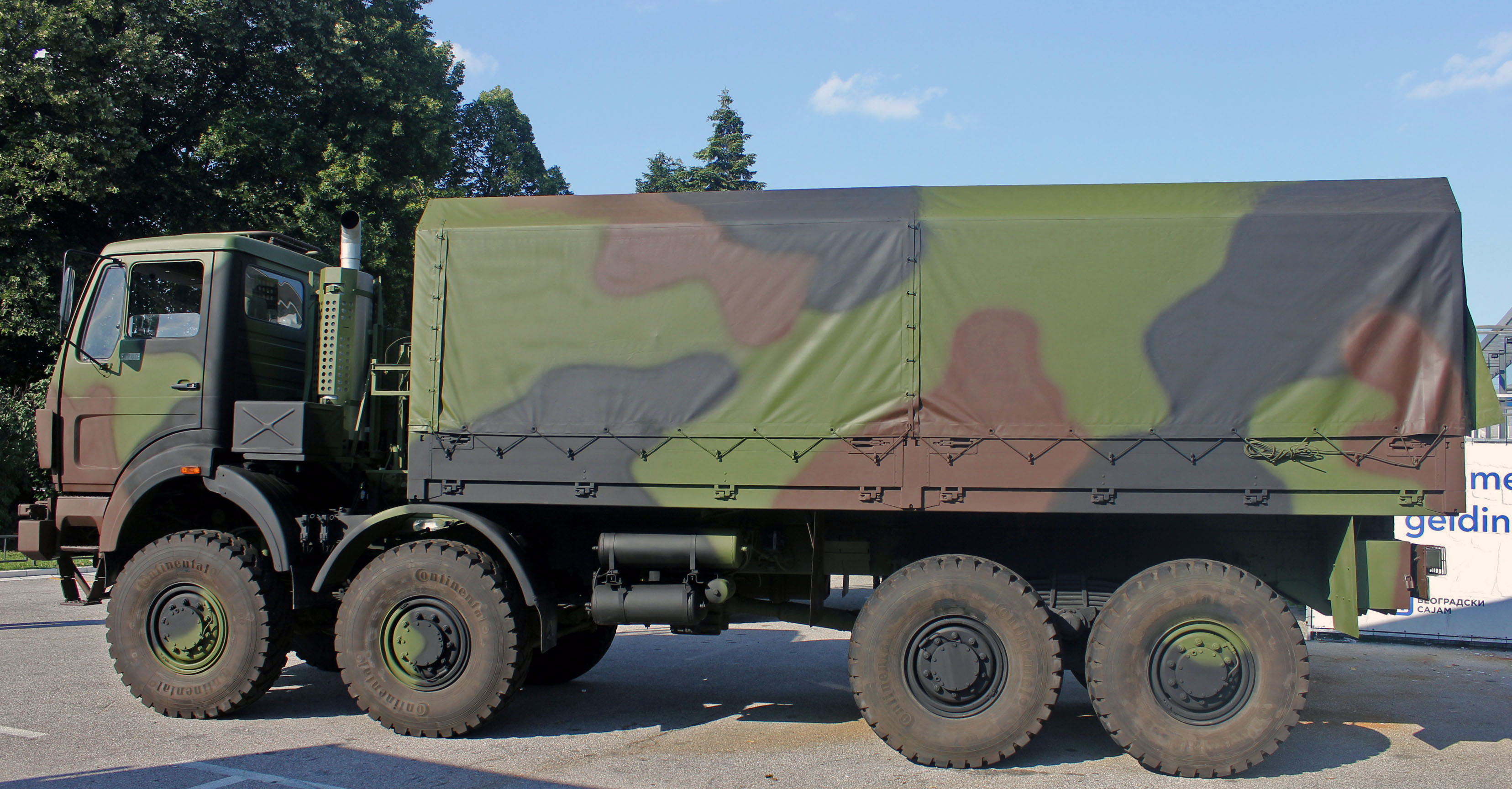 New FAP 3240 BS/AV 8x8 heavy military truck from first series of Serbian Army on display at "Partner 2019" military fair from first series.